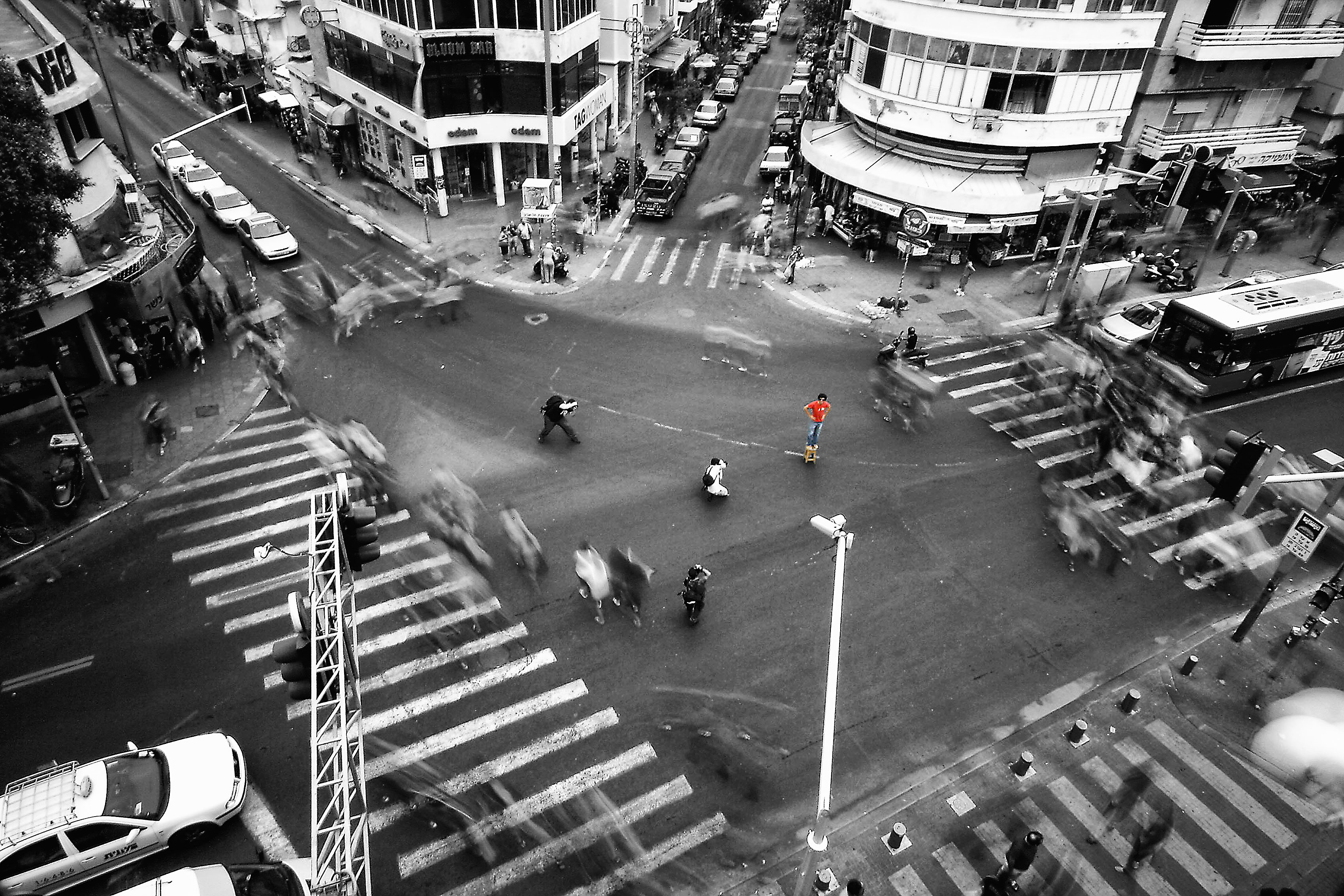 WHERE'S WALDO in HOLLYWOOD, Art of Israel